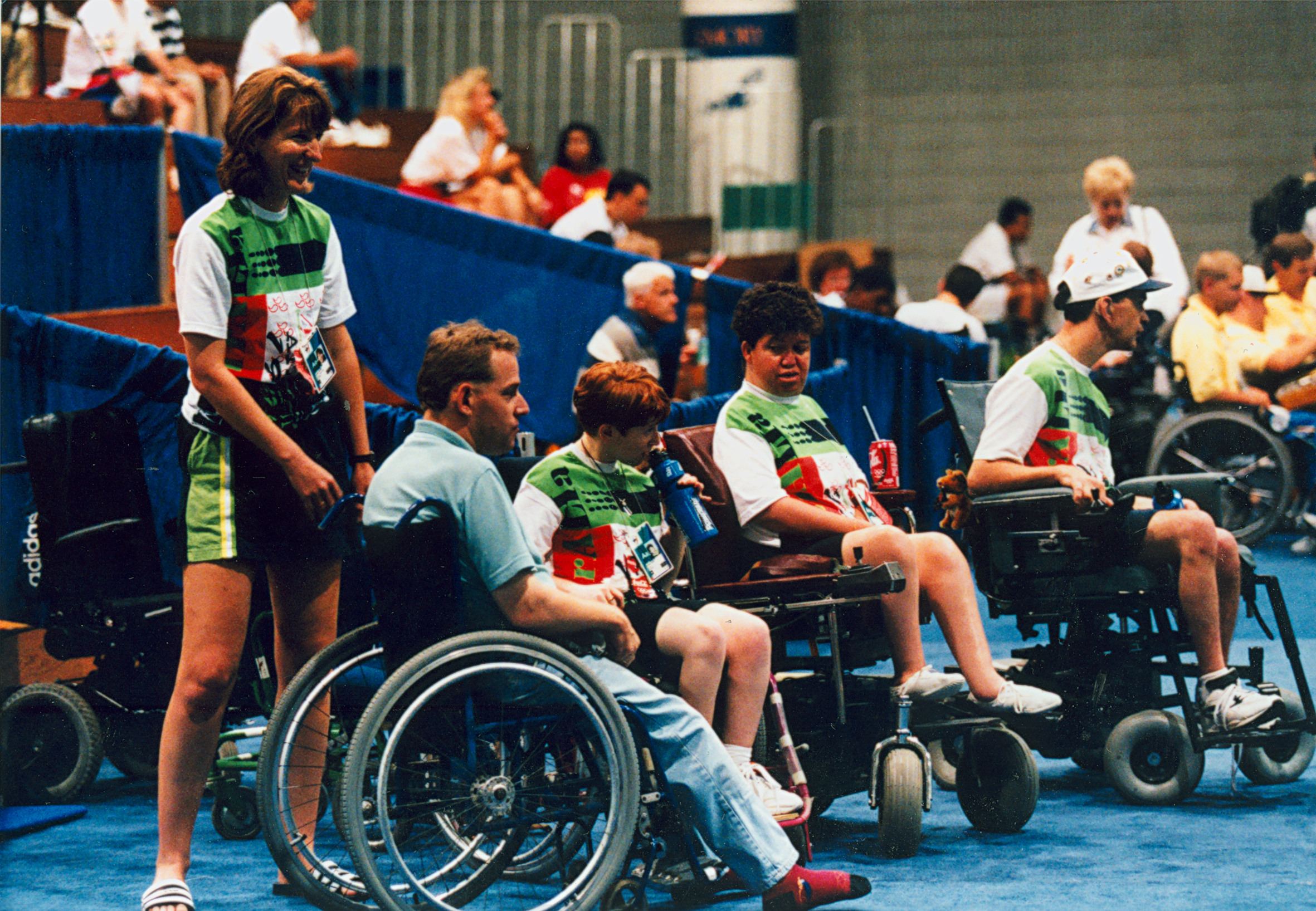 Non-competing Australian team members at the boccia, Atlanta 1996 Paralympic Games. L-R: Jenni Banks (athletics PCA/coach), unknown, and boccia players Fiona Given, Lyn Coleman, John Richardson.